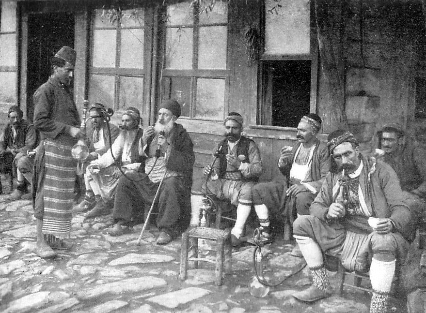 Coffee shop in Istanbul, 1905